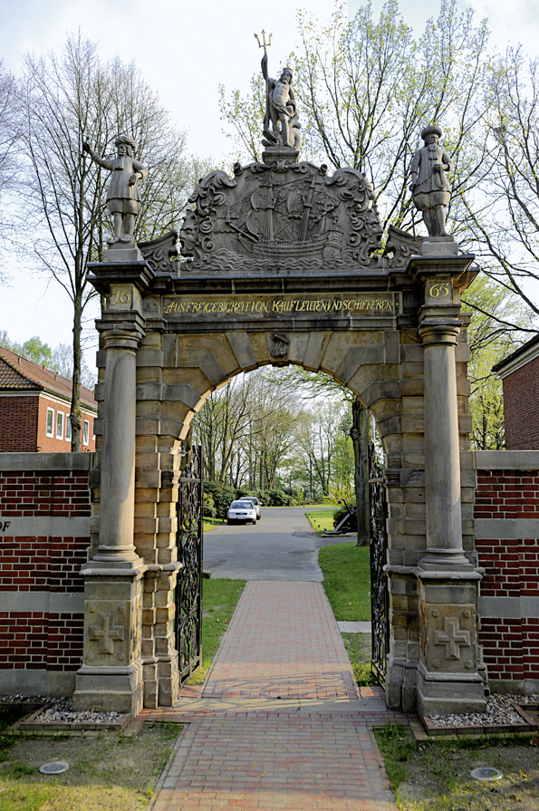 Portal of Haus Seefahrt from the year 1665 (today in Bremen-Grohn).